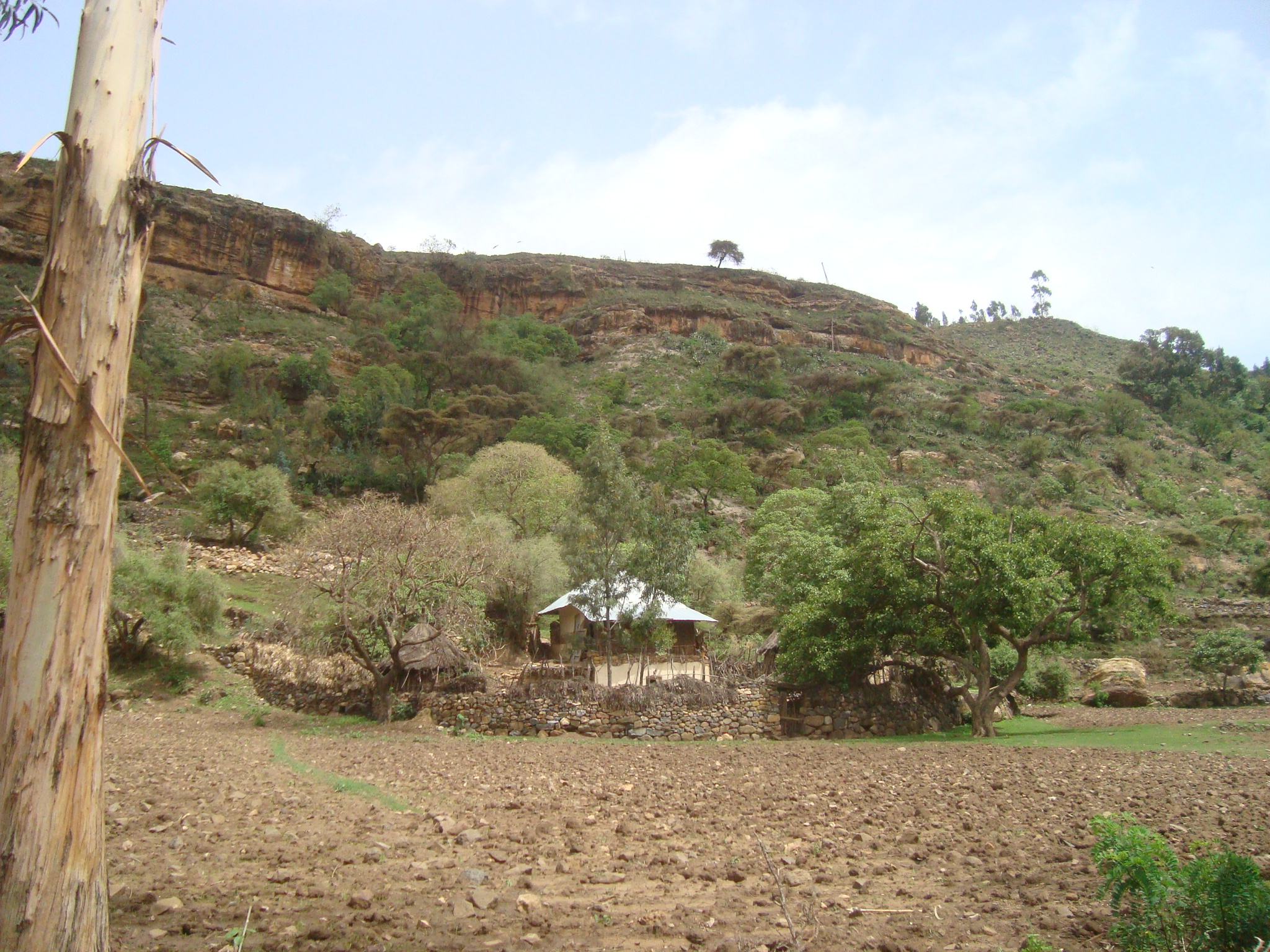 Amba Aradam Sandstone cliff at Addi Geza'eti. the right part of the cliff holds the previous TPLF hq